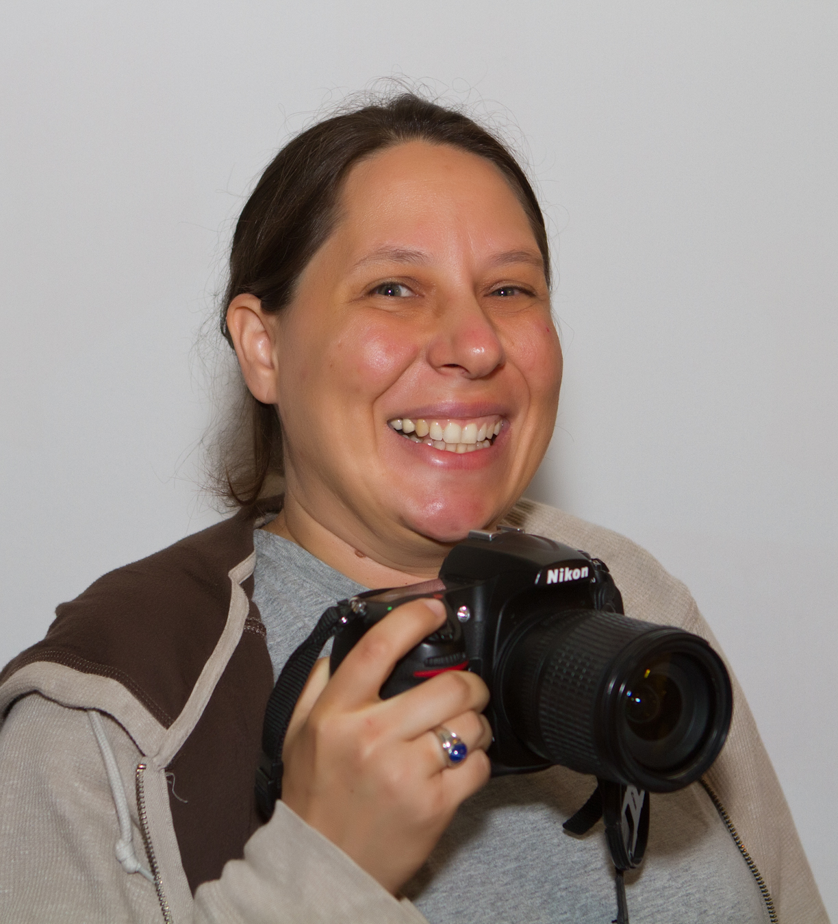 Zoe Strauss smiling with her camera